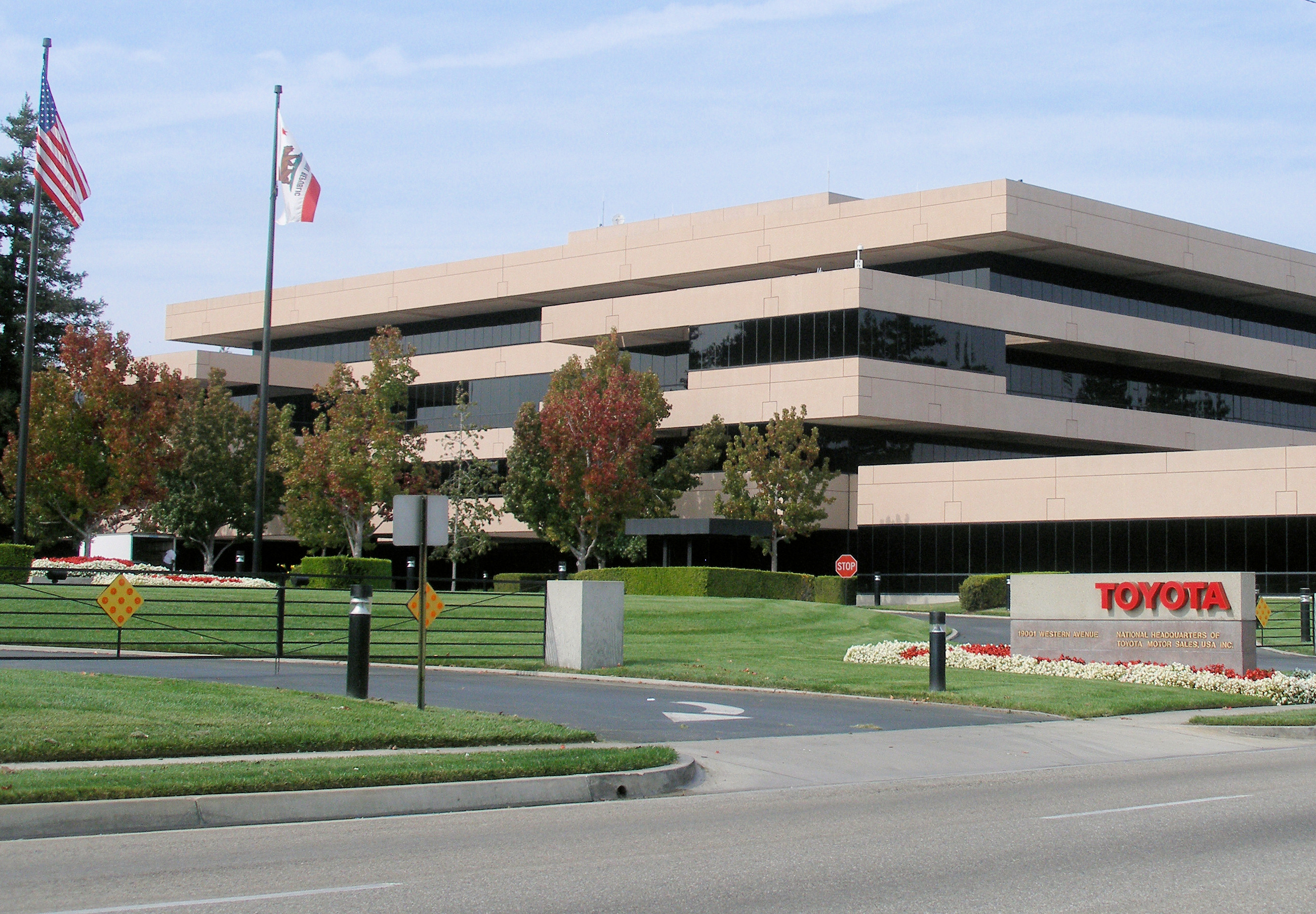 The headquarters of Toyota Motor Sales at 19001 Western Avenue, Torrance.